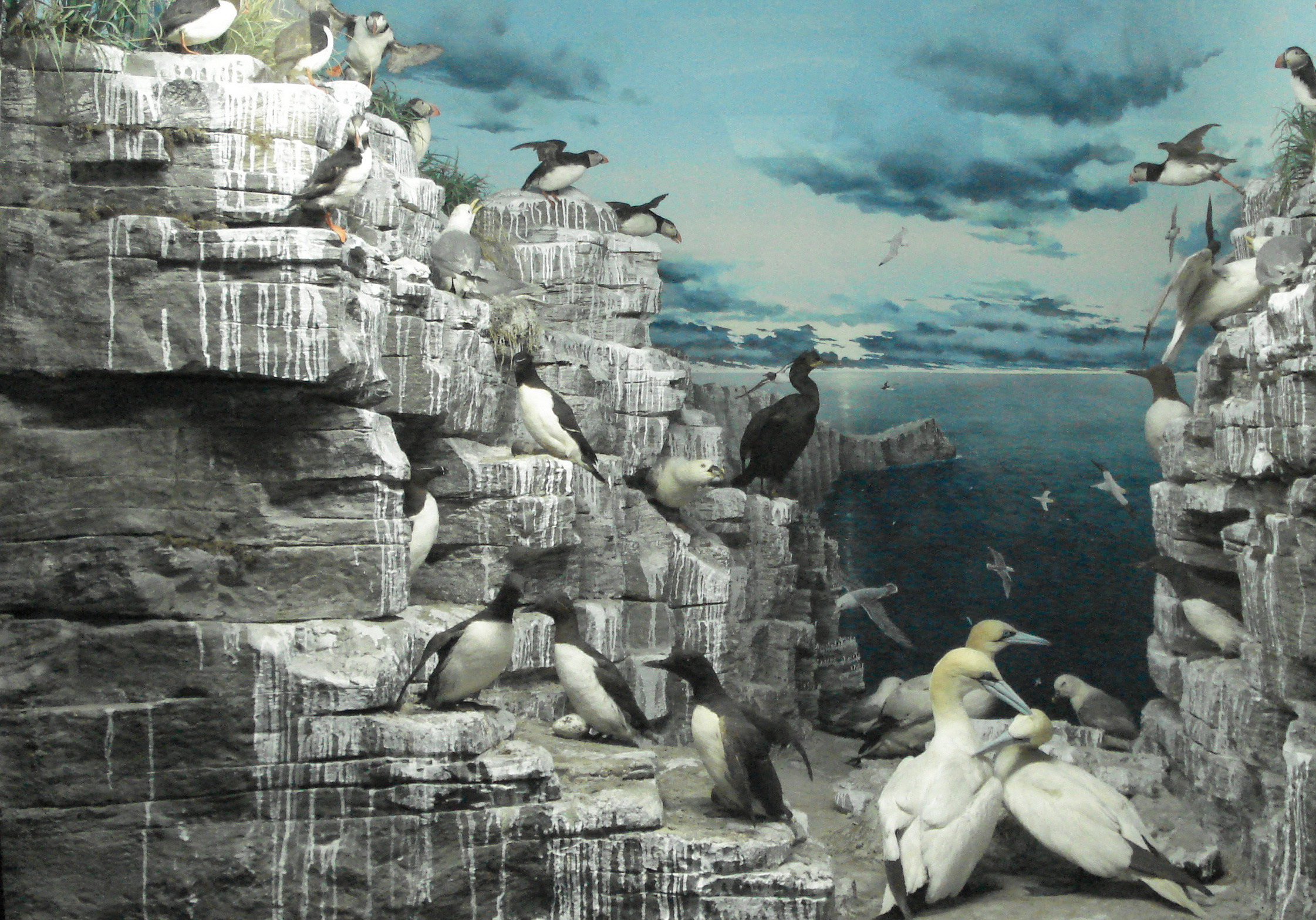 The National history museum in Milan, Italy. Diorama about Lofoten islands' fauna. Picture by Giovanni Dall'Orto, december 20 2006.